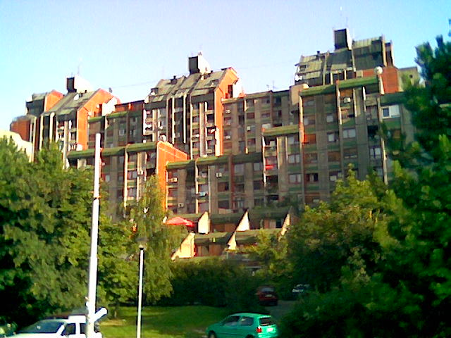 Residential part of Banjica